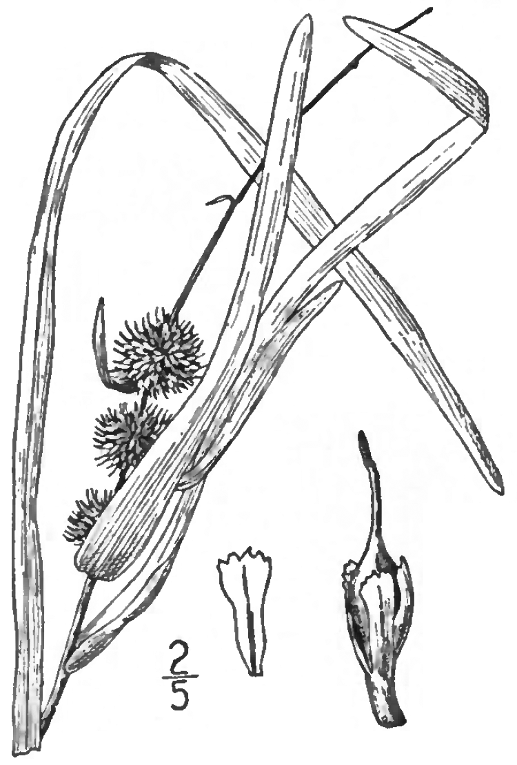 Fig. 163. Sparganium americanum from the second edition of An Illustrated Flora of the Northern United States, Canada and the British Possessions (New York, 1913)